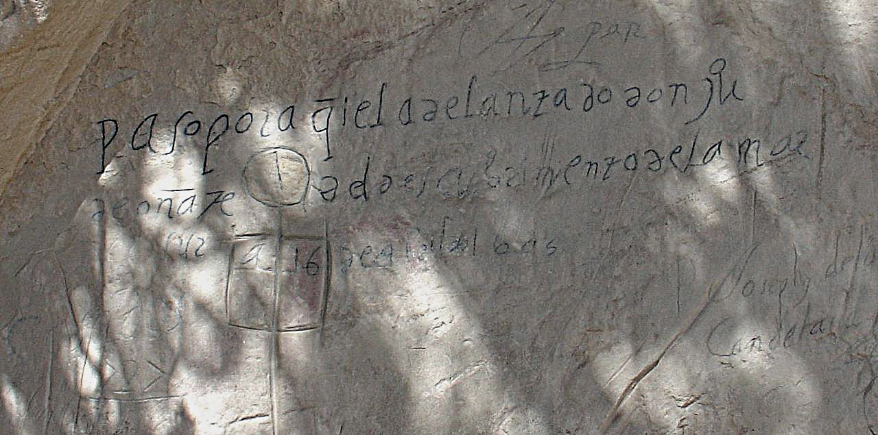 Inscription on El Morro National Monument in New Mexico, US, by Juan de Oñate in 1605.